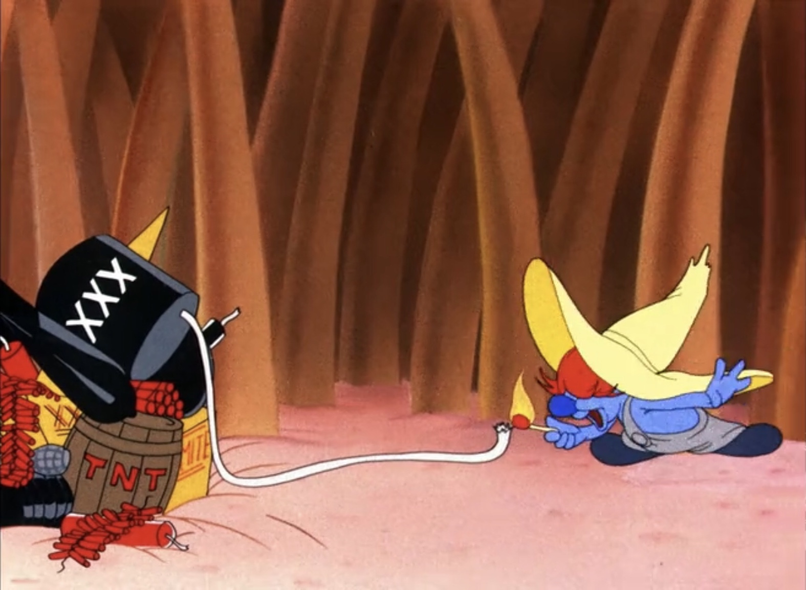 An Itch in Time is a cartoon of the public domain in 1967.